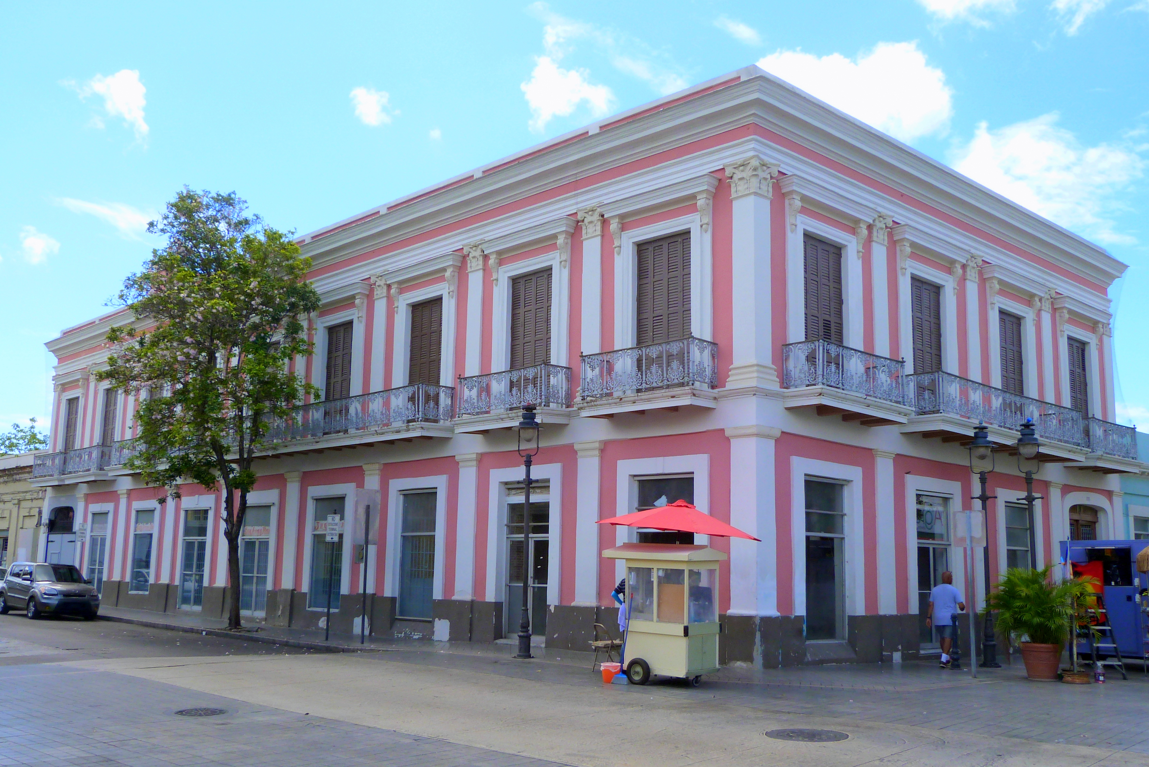 The historic Casa Vives (built 1860), located at Paseo Atocha #88 in Ponce, Puerto Rico, is listed on the U.S. National Register of Historic Places.